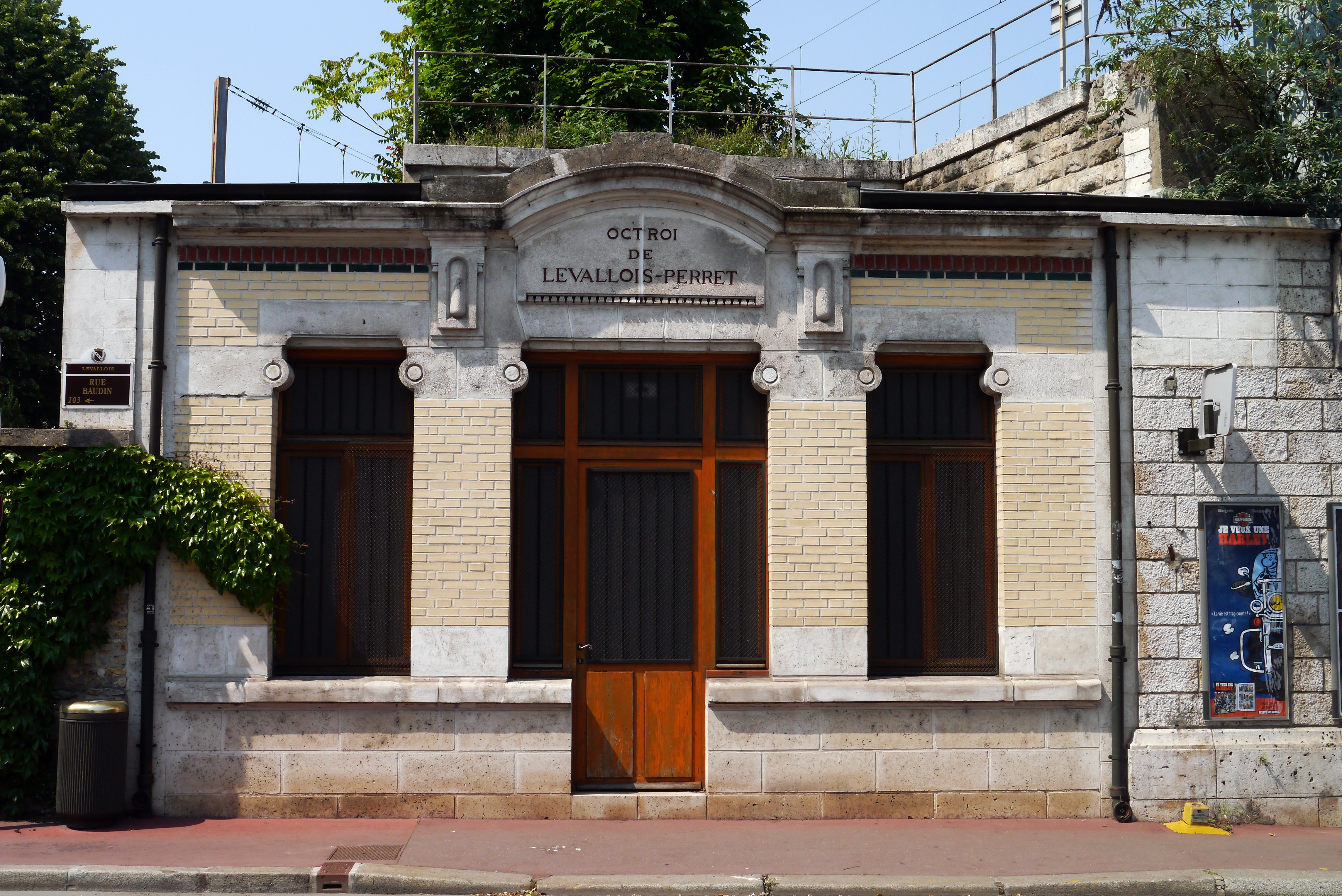 Levallois-Perret, Hauts-de-Seine, France. Former octroi pavilion, rue Baudin.